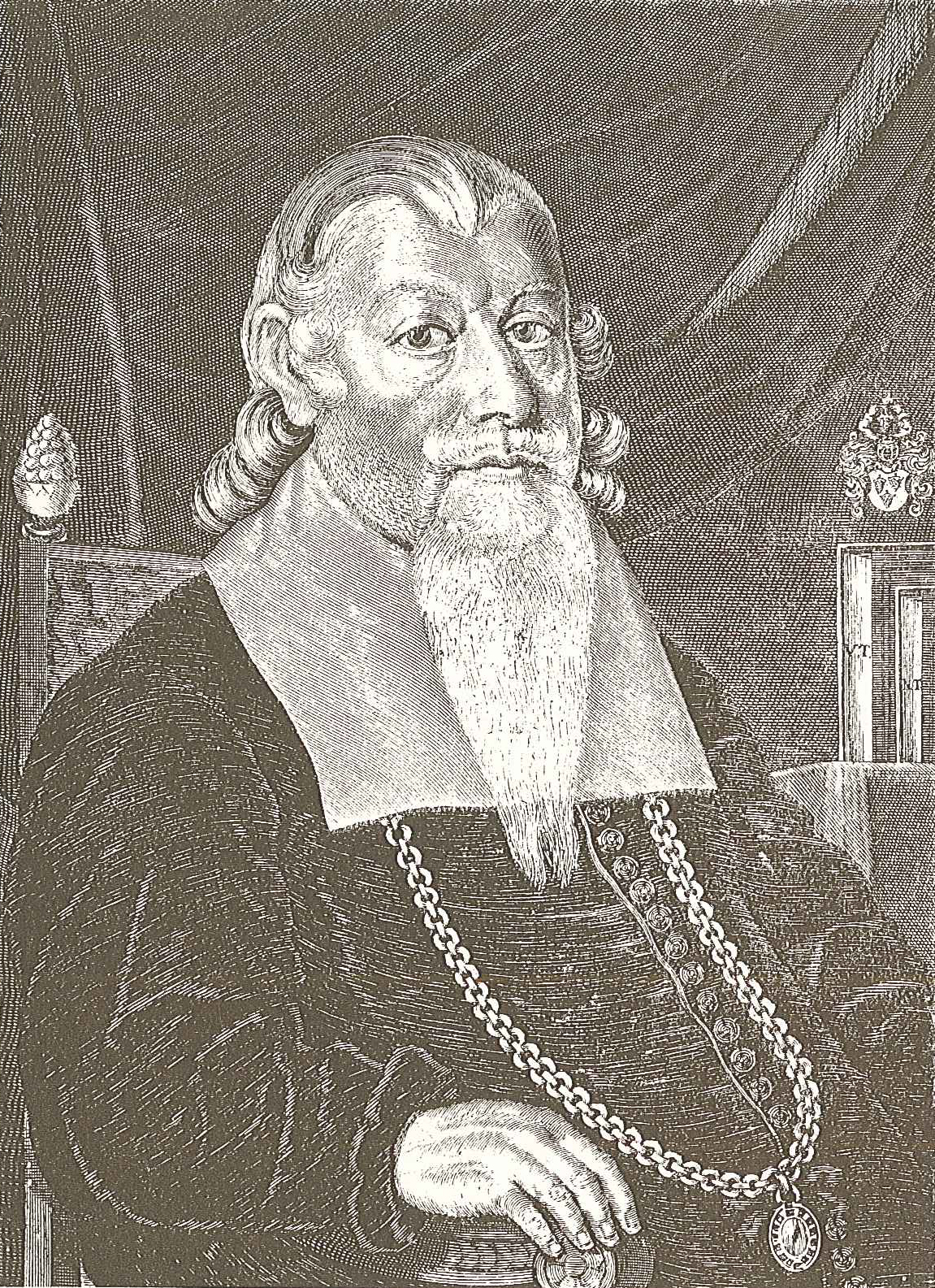 Peder Winstrup (1605-1679), Danish-Swedish clergyman and scholar; bishop of Lund 1638-1679.